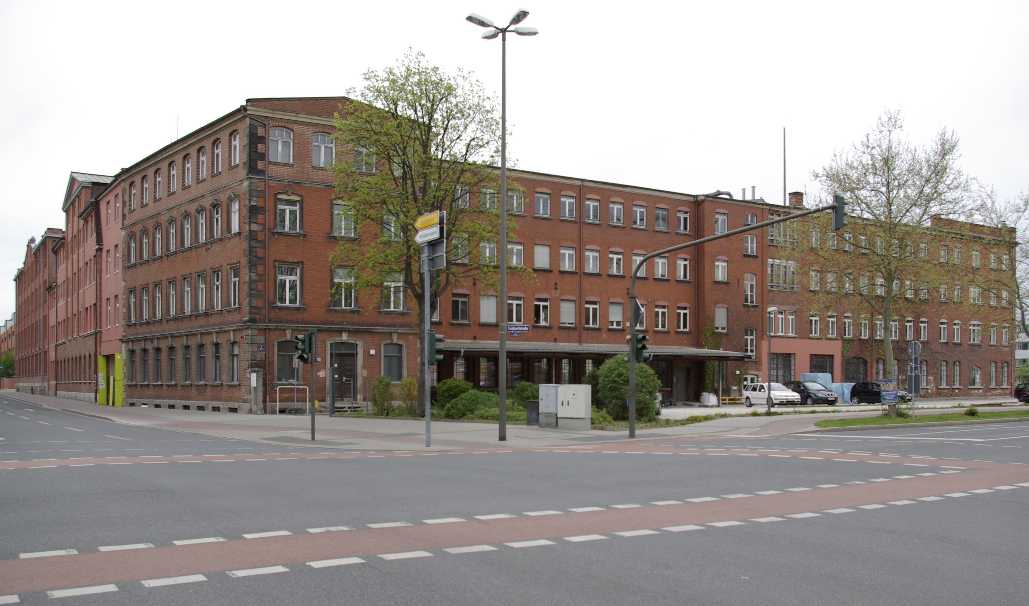 Die 1893 errichteten Gebäude von Reiniger, Gebbert & Schall an der Ecke Luitpold- / Gebbertstraße in Erlangen. Auf dem Areal fertigten später auch die daraus hervorgegangenen Siemens-Reiniger-Werke und schließlich der Unternehmensbereich Medizintechnik der Firma Siemens. Im Jahr 2000 schenkte das Unternehmen Siemens das Gebäude der Stadt Erlangen, die darin das Kulturreferat, das Kultur- und Freizeitamt, das Stadtplanungsamt und das Bauaufsichtsamt untergebracht hat. Auch die Einrichtung eines Museumswinkels ist dort geplant.